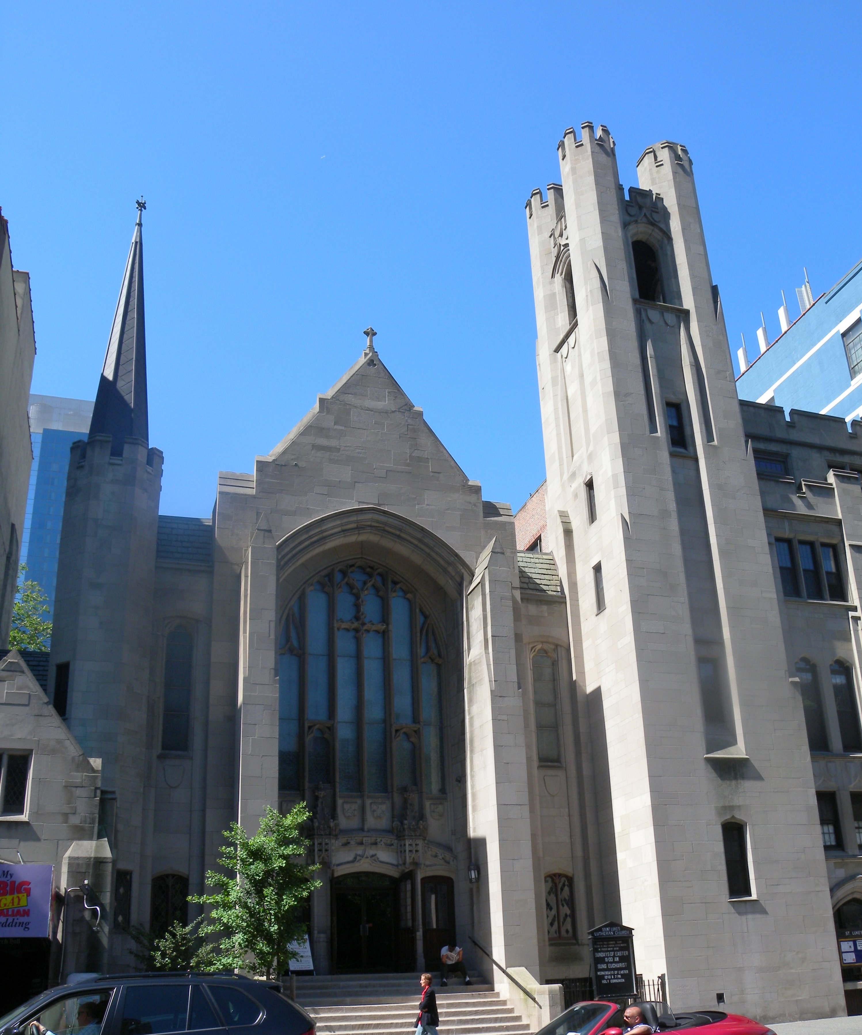 Looking south at St Luke's Church on a sunny morning.